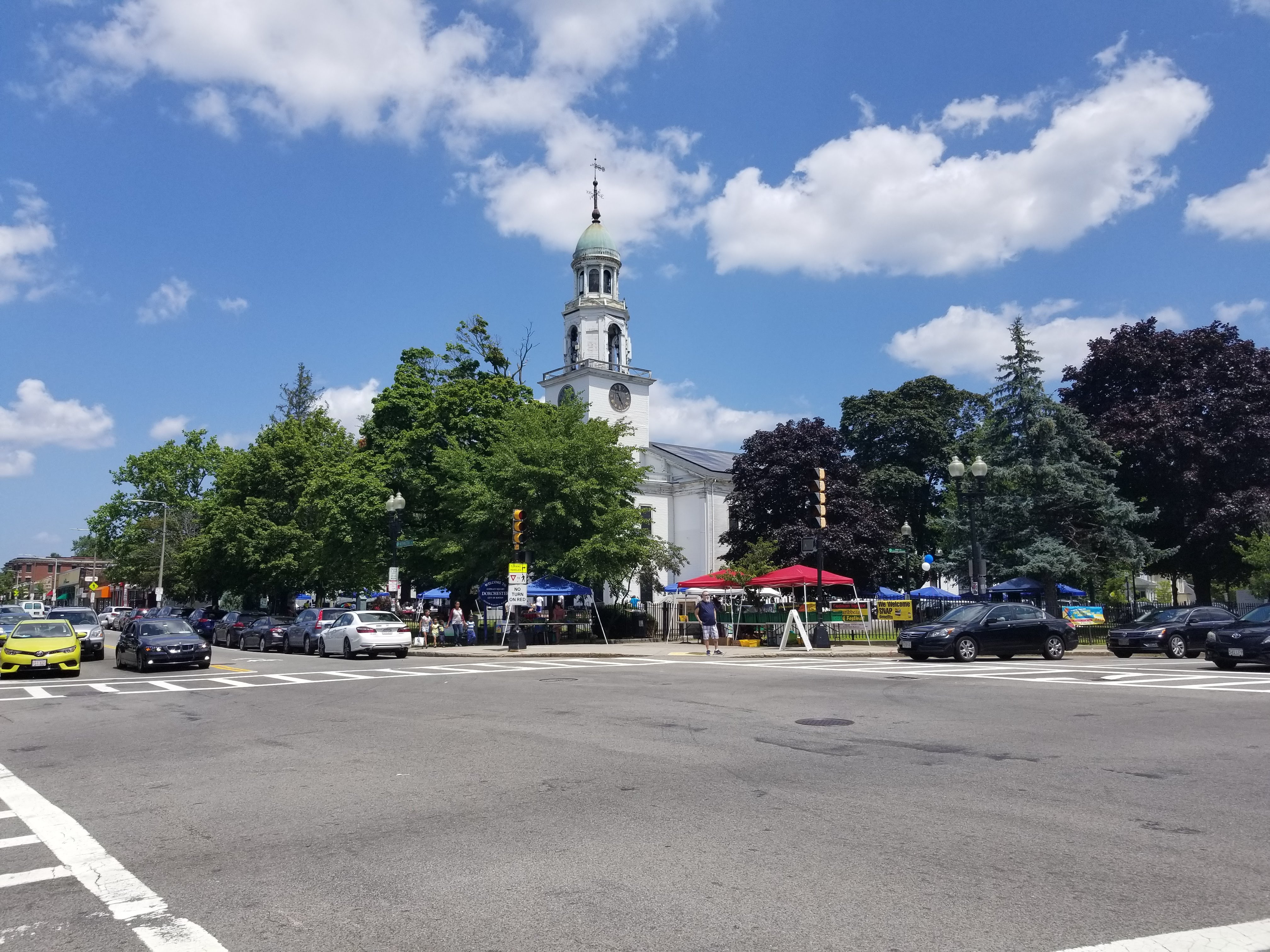 Second Church in Dorchester steeple from across the street.